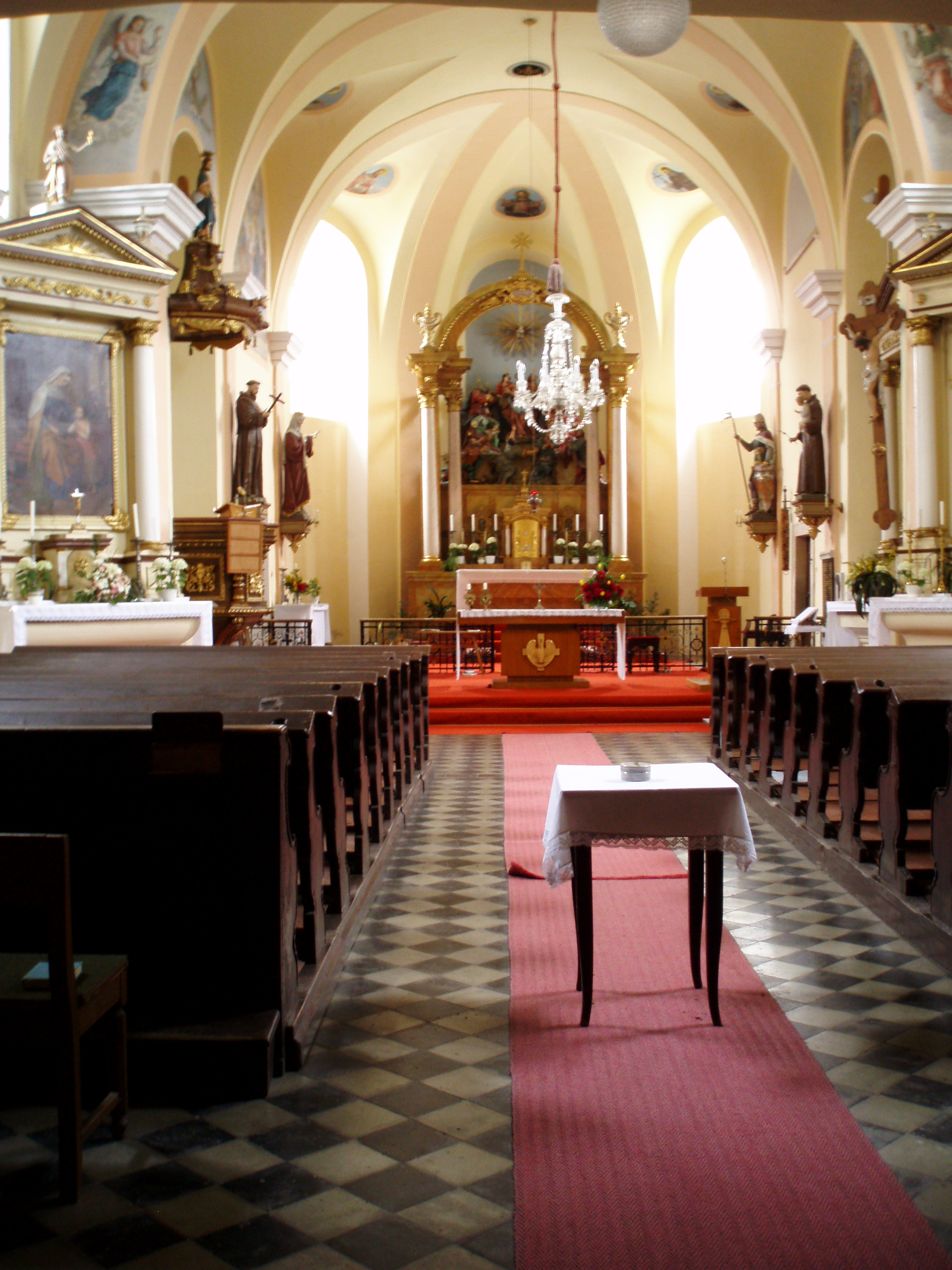 Interior of church of the Holy Spirit in Hořičky (District of Náchod)